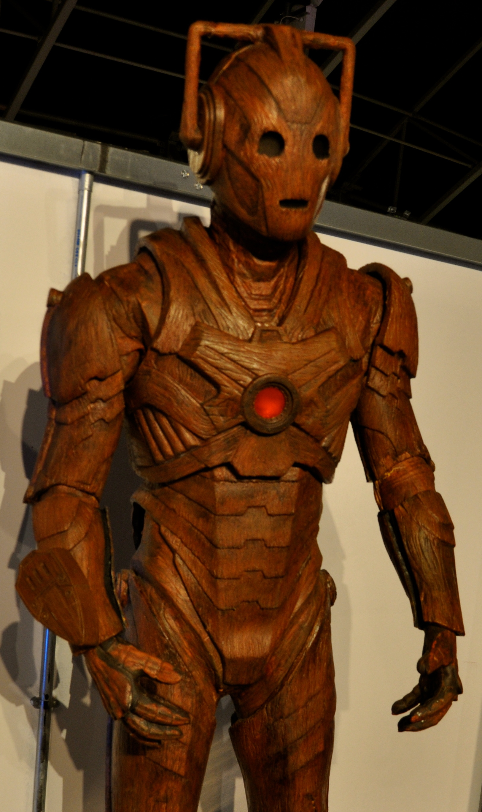 DWE Cardiff Bay, Port Teigr November 2016 Doctor Who Experience